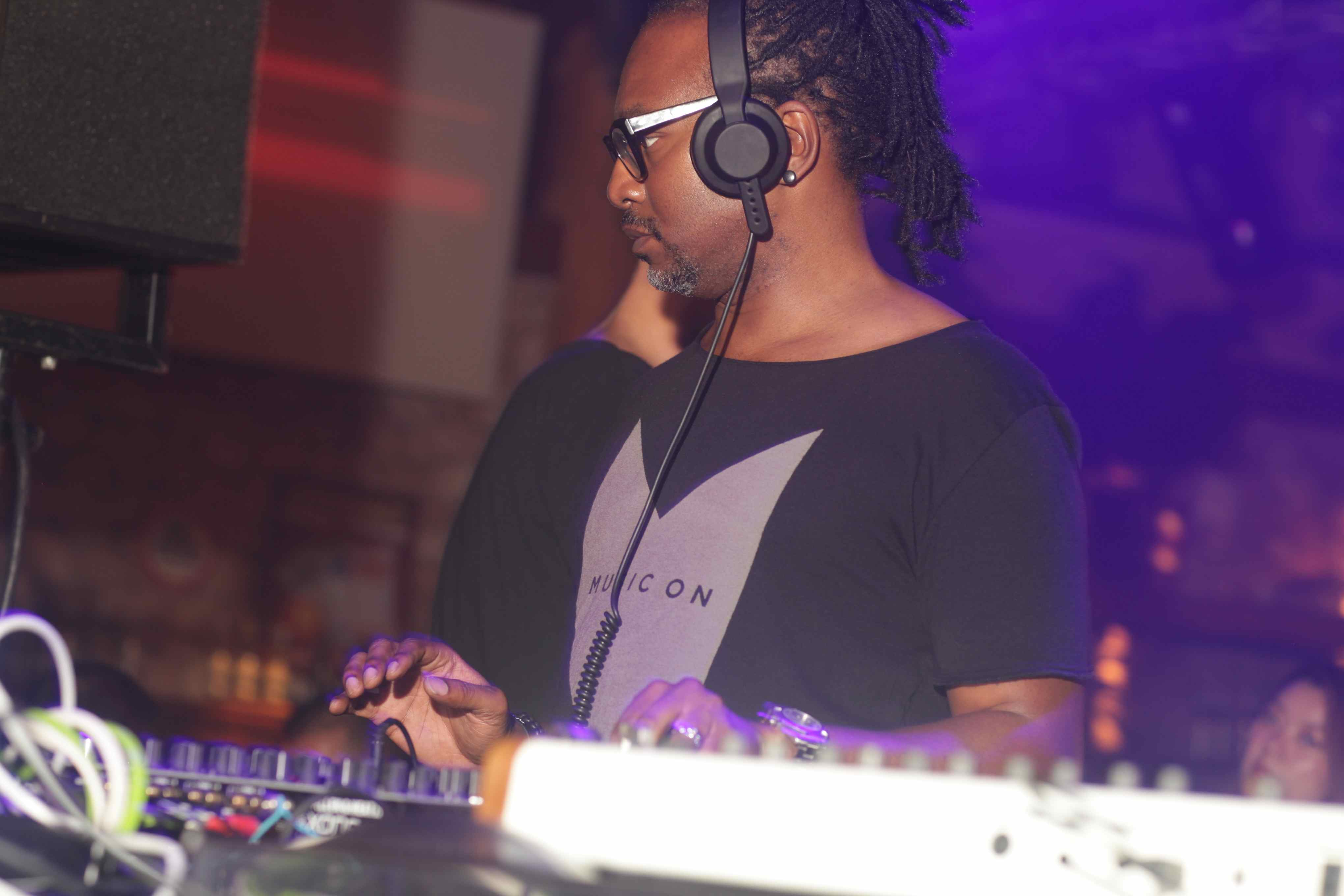 31.08.12 - Music On. More pics at